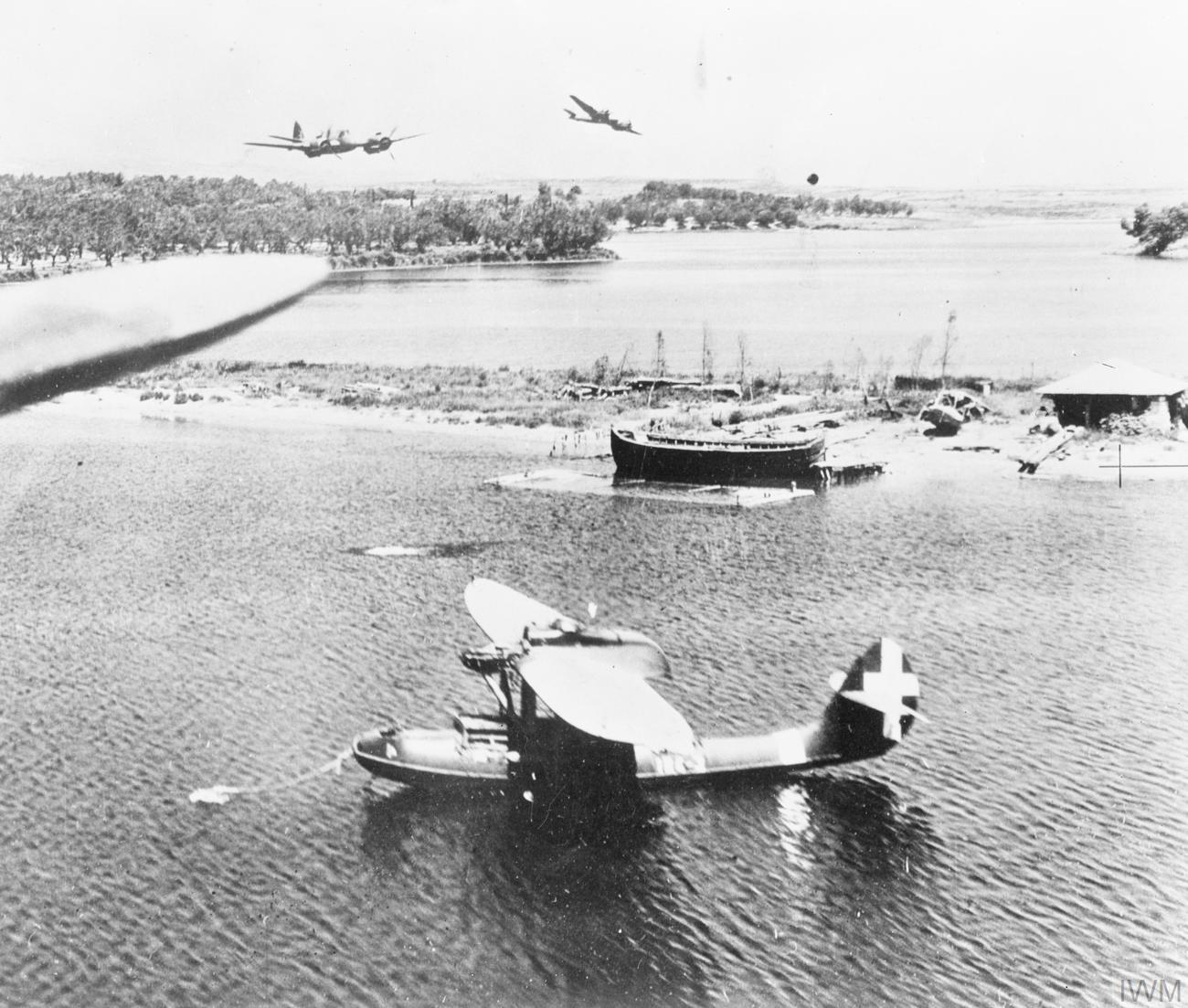 Bristol Beaufighters of No. 252 Squadron RAF based at El Magrun, Libya, sweep in at low level to attack the Italian seaplane base at Preveza, Greece. In the foreground a CANT Z.501 flying boat is moored.